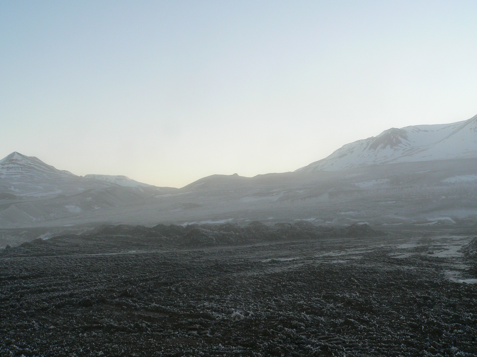 Snow formations in Akureyri, Iceland.